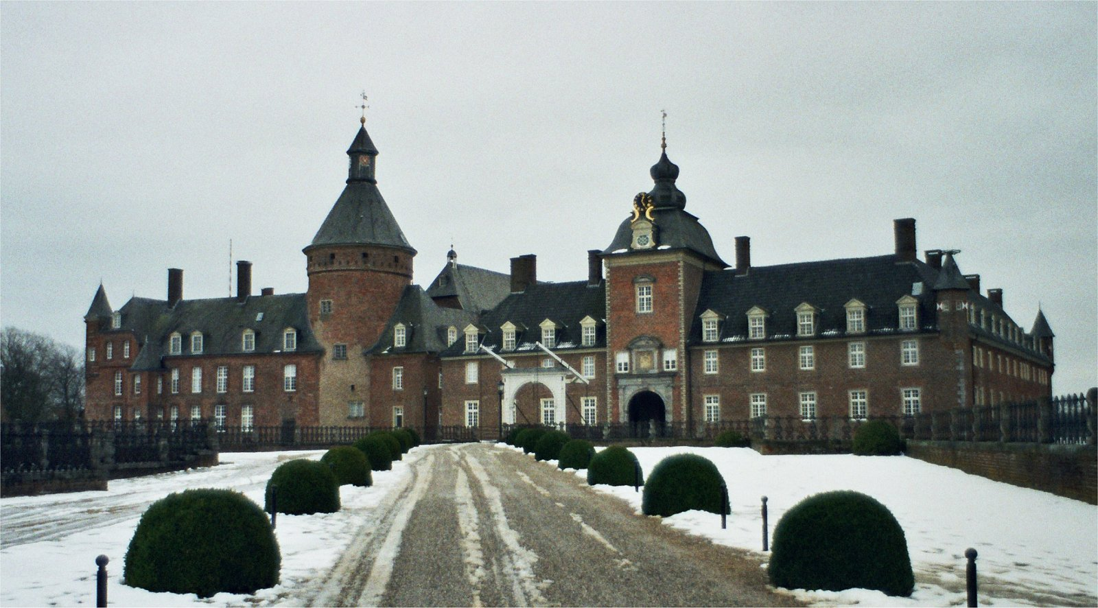 Anholt Castle in Isselburg